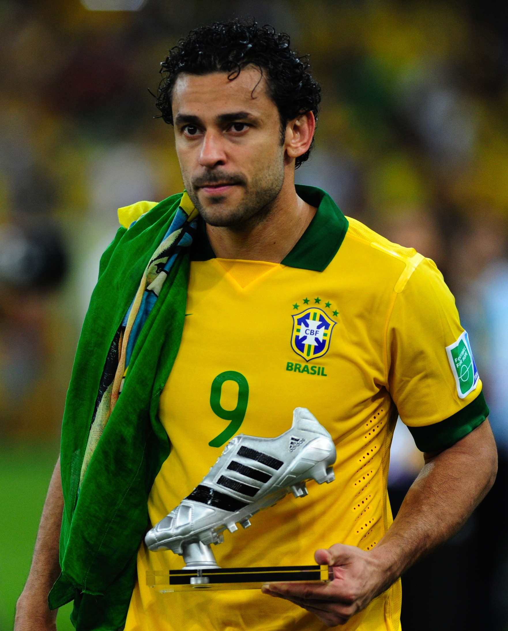 Fred after the 2013 FIFA Confederations Cup Final